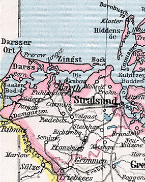 Detail from a map of Pomerania.